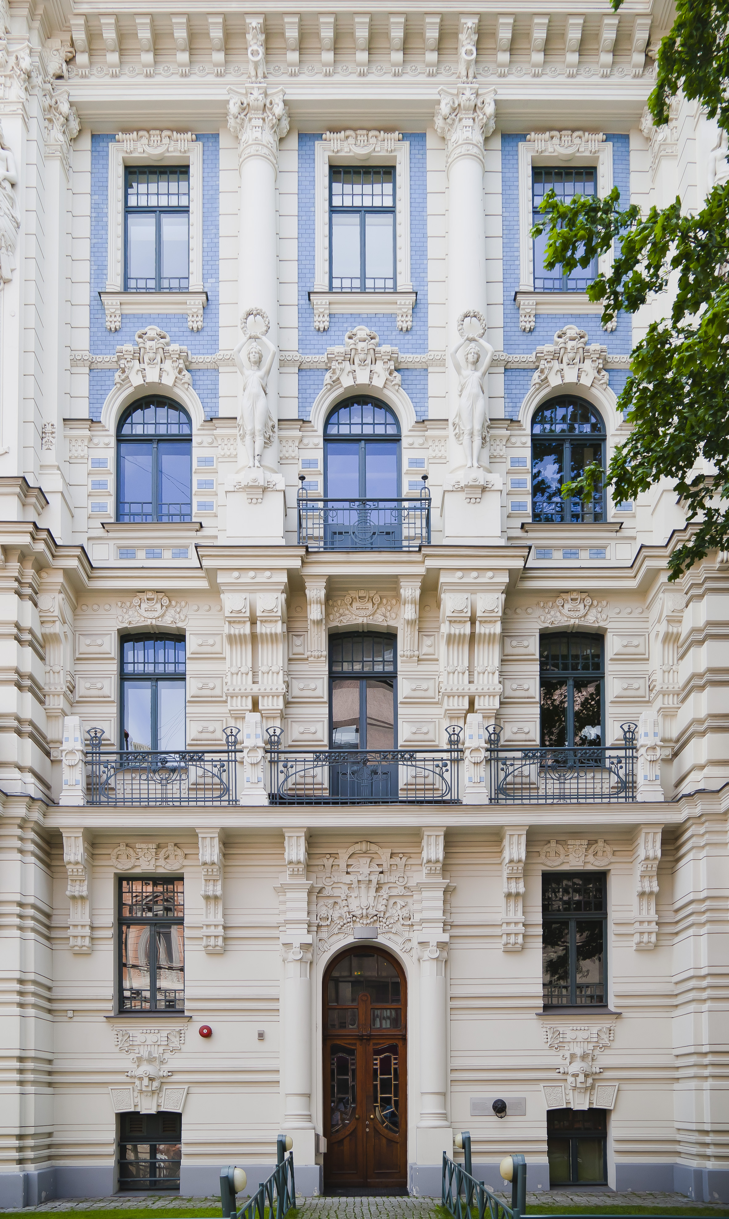 Building in Strelnieku Iela 4a, Riga, Latvia